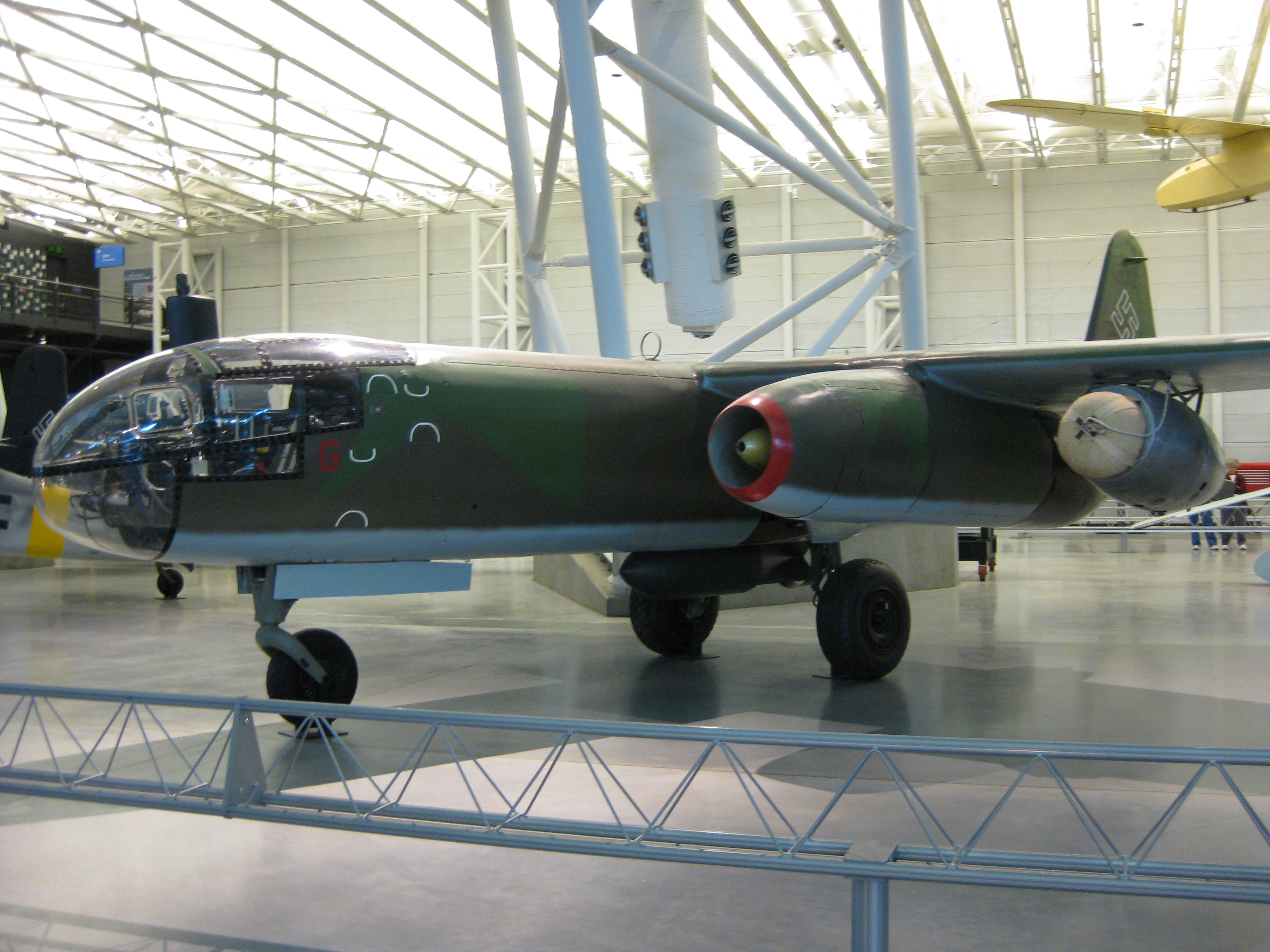 Arado Ar 234 140312 on display at the Steven F. Udvar-Hazy Center in October 2009